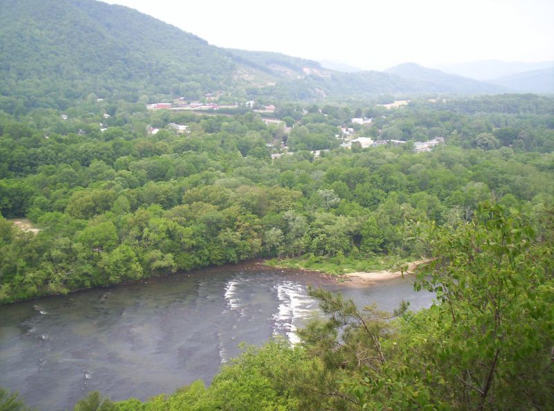 A view of the French Broad River and Hot Springs from the Appalachian Trail